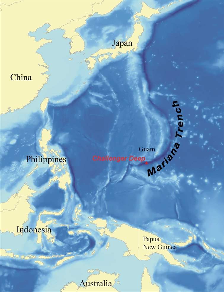 Map showing the location of the Mariana Trench, designed as a replacement for Image:Mariana_trench_location.jpg.